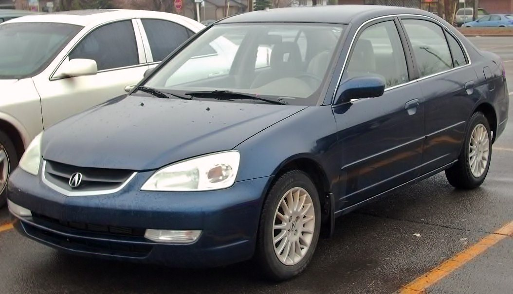 2001-2005 Acura 1.7EL photographed in Montreal, Quebec, Canada.